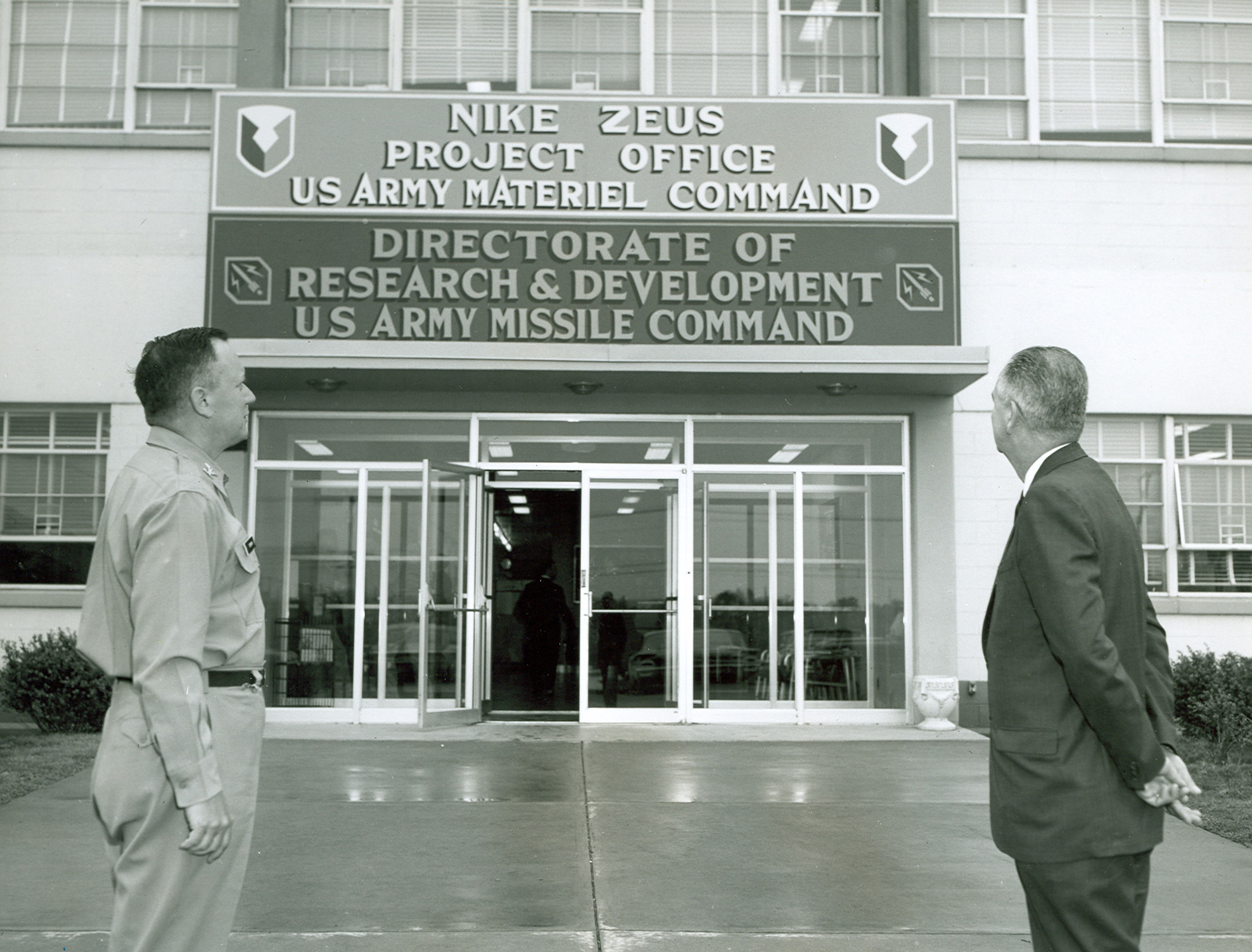 Col. Ivey Drewry and C.A. Warren of Bell Labs inspect the new NIKE-ZEUS Project Office sign at bldg. 4505, Redstone Arsenal, Ala.